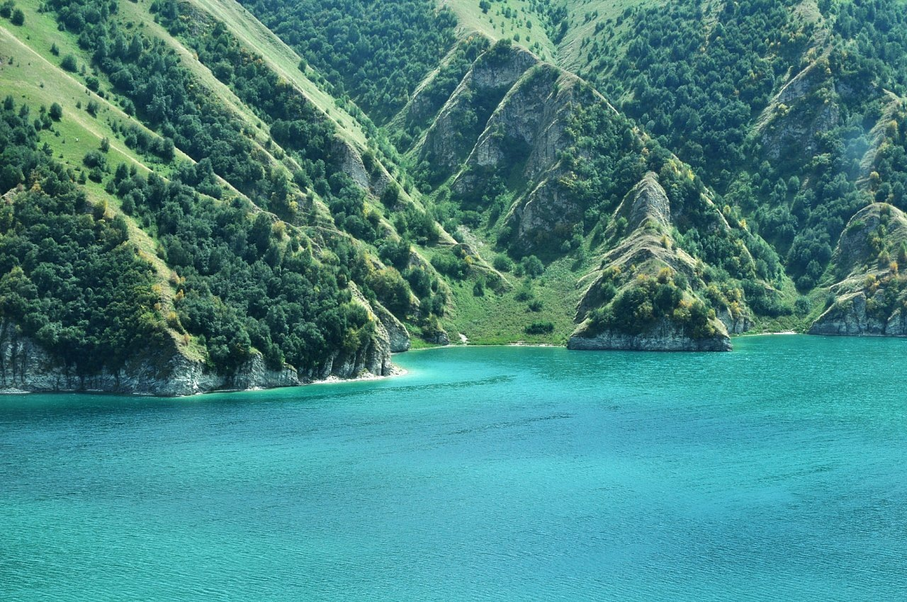 kezenoy-lake